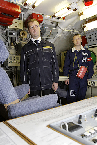 VILYUCHINSK, KAMCHATKA. On the strategic nuclear cruiser submarine St George the Victorious.